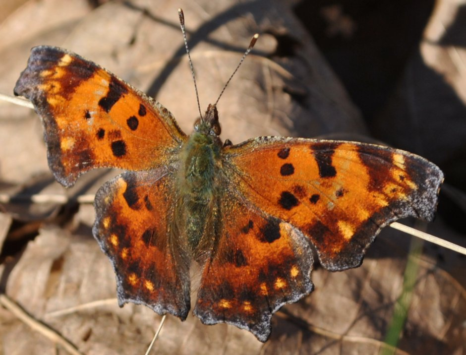 Eastern Comma (Polygonia comma), Chippewa Co., WI